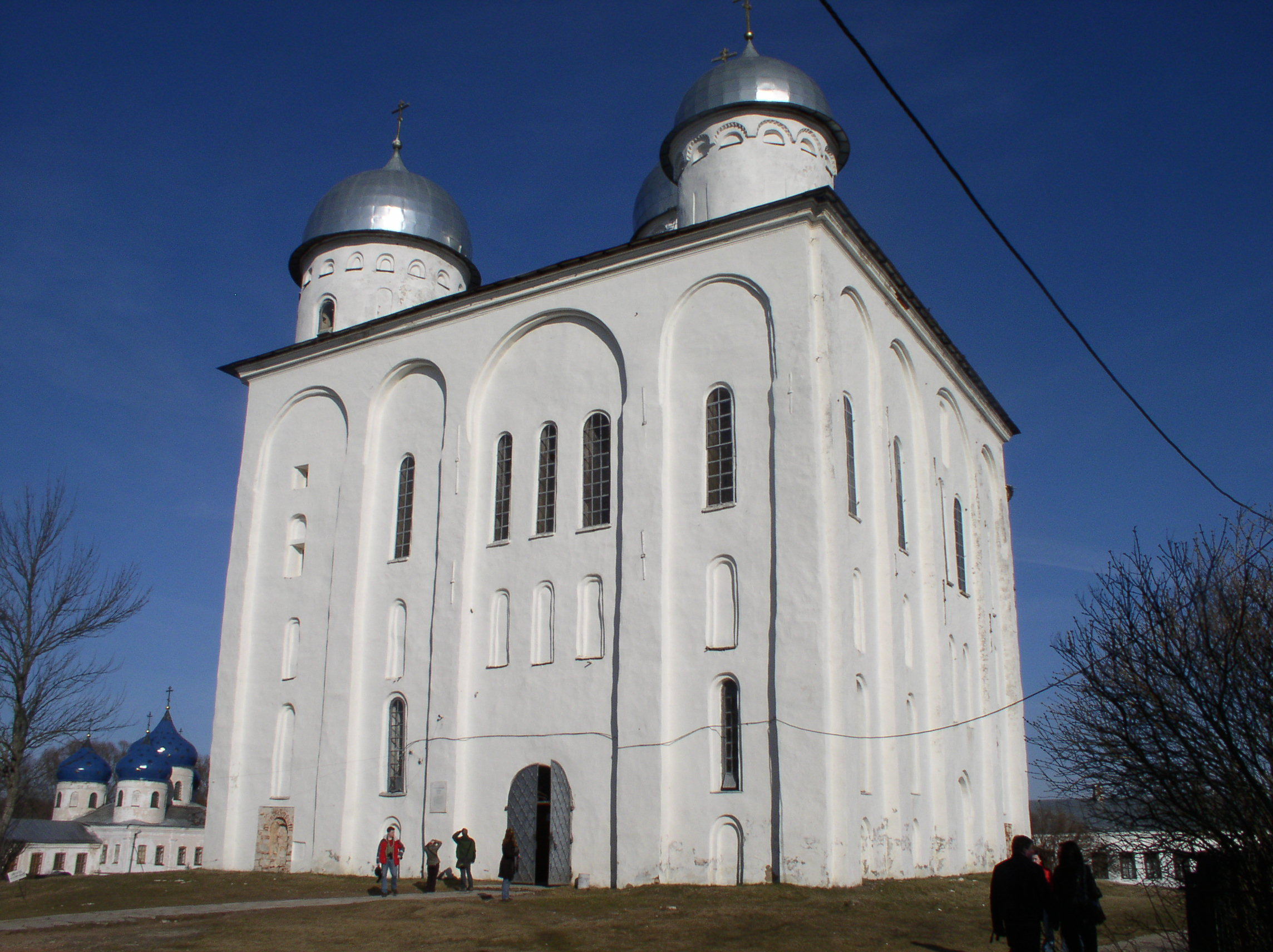 Church of St. George. Yuryev Monastery Cathedral (1119-1130), Velikiy Novgorod, Russia